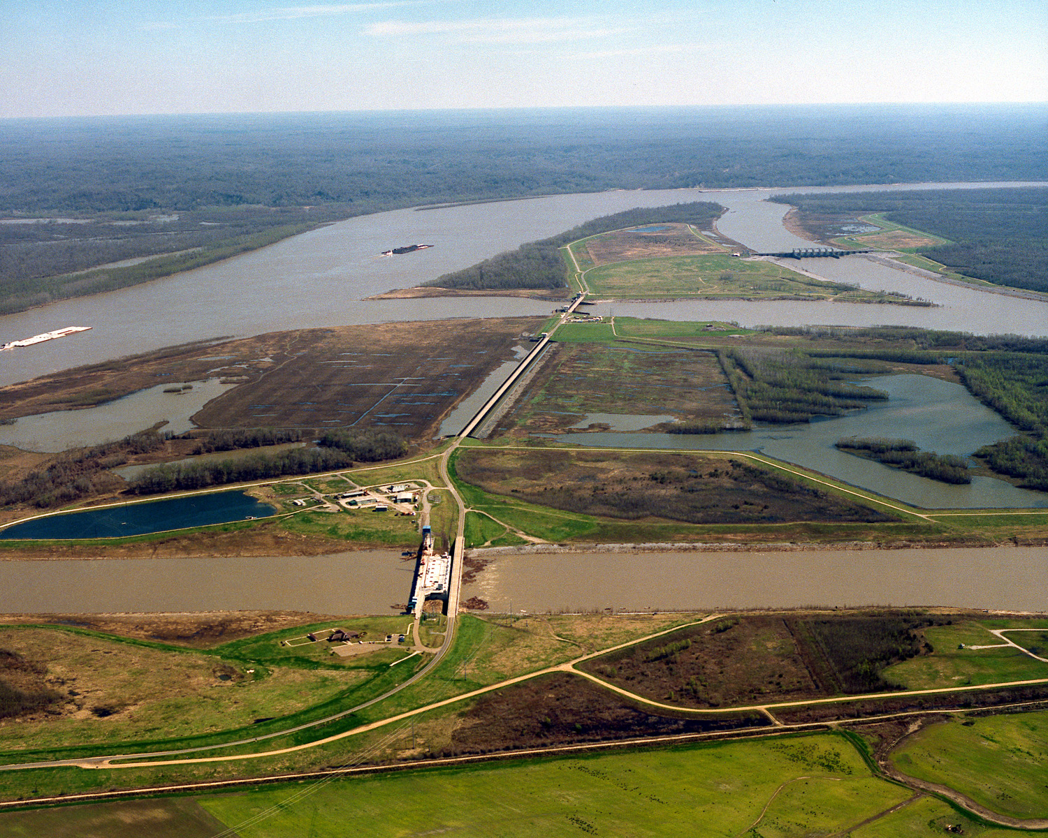 The Old River Control Structure at the juncture of the Mississippi River and the Atchafalaya River. In this photograph, the Mississippi River enters from the left and curves away to the right in the distance. The Atchafalaya River meets the Mississippi at three points and runs off to the bottom right. Control structures (dams) at each of the three forks of the Atchafalaya prevent most of the waters of the Mississippi from running into the Atchafalaya. The design of the structures is intended to keep 70% of the water in the Mississippi and 30% flowing into the Atchafalaya. View is to the east-southeast. The control structures are located at river mile 315 on the Mississippi (315 miles from the Gulf of Mexico). On the left of the river in this photograph is Wilkinson County in the State of Mississippi. Concordia Parish, Louisiana is on the right.